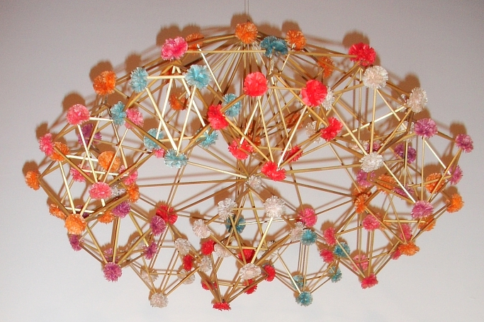 Himmeli